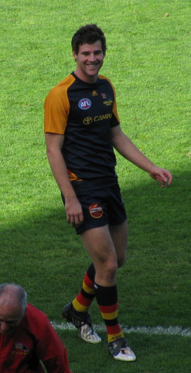 Andy Otten in the Adelaide Crows' pre-match warm-up during the 2009 Round 10 clash against Hawthorn at AAMI Stadium.